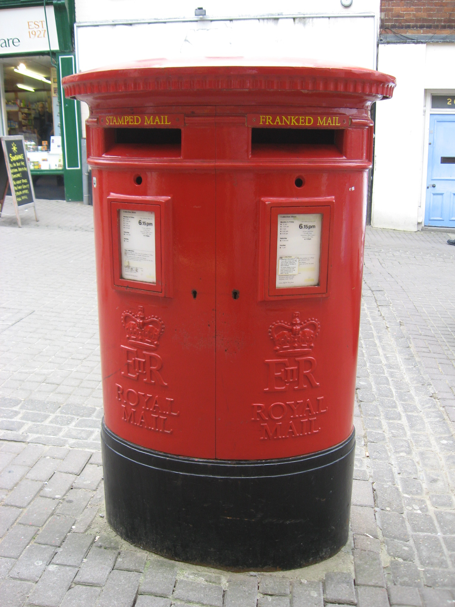 Double aperture pillar box,Stroud, Gloucestershire